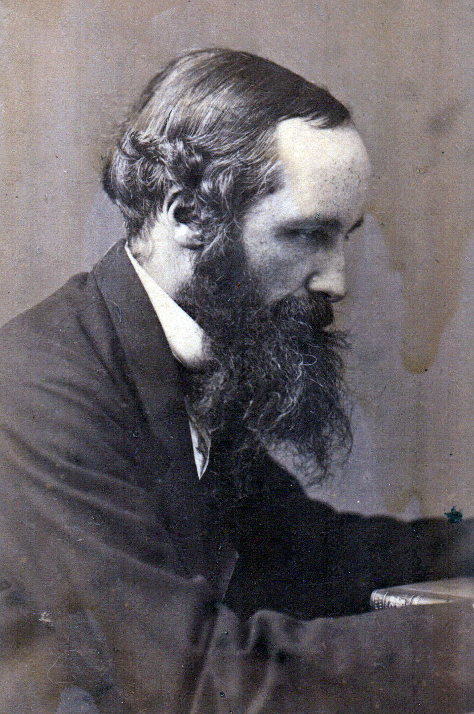 Creator/Photographer: Unidentified photographer Medium: Medium unknown Dimensions: 9.3 cm x 5.9 cm Date: prior to 1879 Collection: Scientific Identity: Portraits from the Dibner Library of the History of Science and Technology - As a supplement to the Dibner Library for the History of Science and Technology's collection of written works by scientists, engineers, natural philosophers, and inventors, the library also has a collection of thousands of portraits of these individuals. The portraits come in a variety of formats: drawings, woodcuts, engravings, paintings, and photographs, all collected by donor Bern Dibner. Presented here are a few photos from the collection, from the late 19th and early 20th century. Persistent URL: [1] Repository: Smithsonian Institution Libraries Accession number: SIL14-M002-13